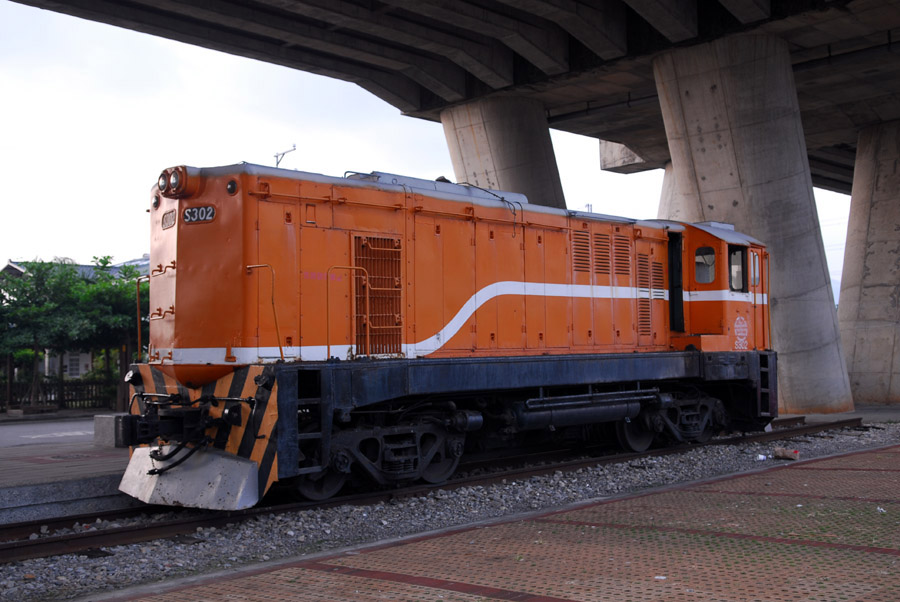 S300 is one of the various diesel-electric locomotive types used by TRA. S300 was once used as switcher or running on the branch line, but eventually retired from the fleet. This photo shows one of the S300 locomotive, the S302, preserved and displayed next to TaiAn Station.